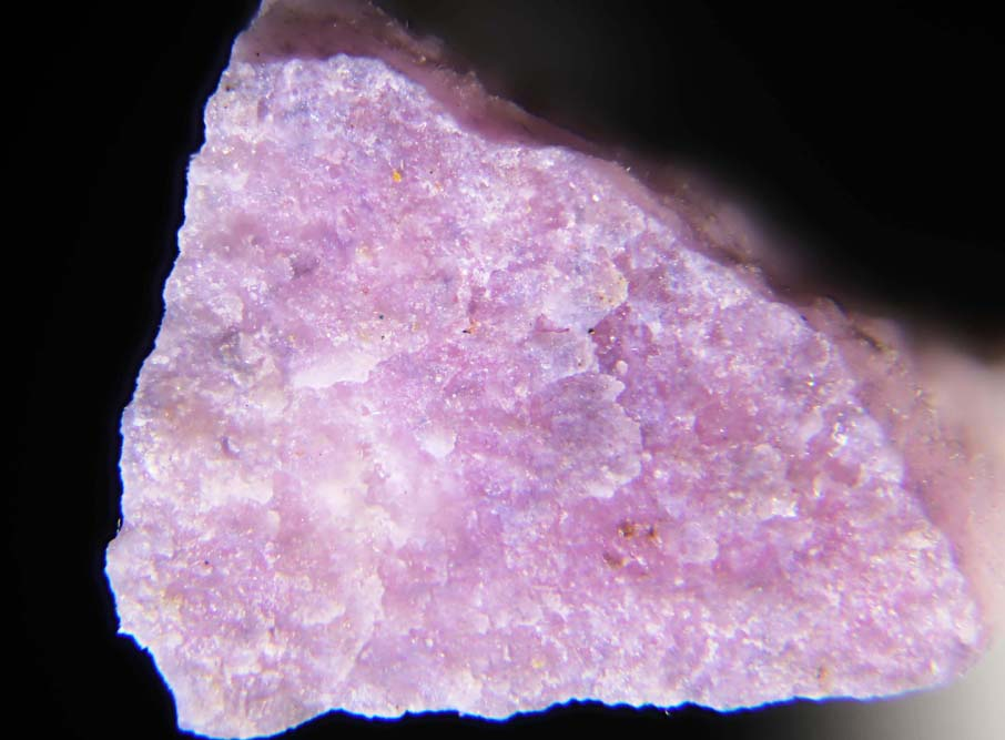 Purple crystal aggregates of the very rare mineral bentorite from the type locality and one of the only two known localities worldwide: Hatrurim Formation, Negev Desert, Israel.